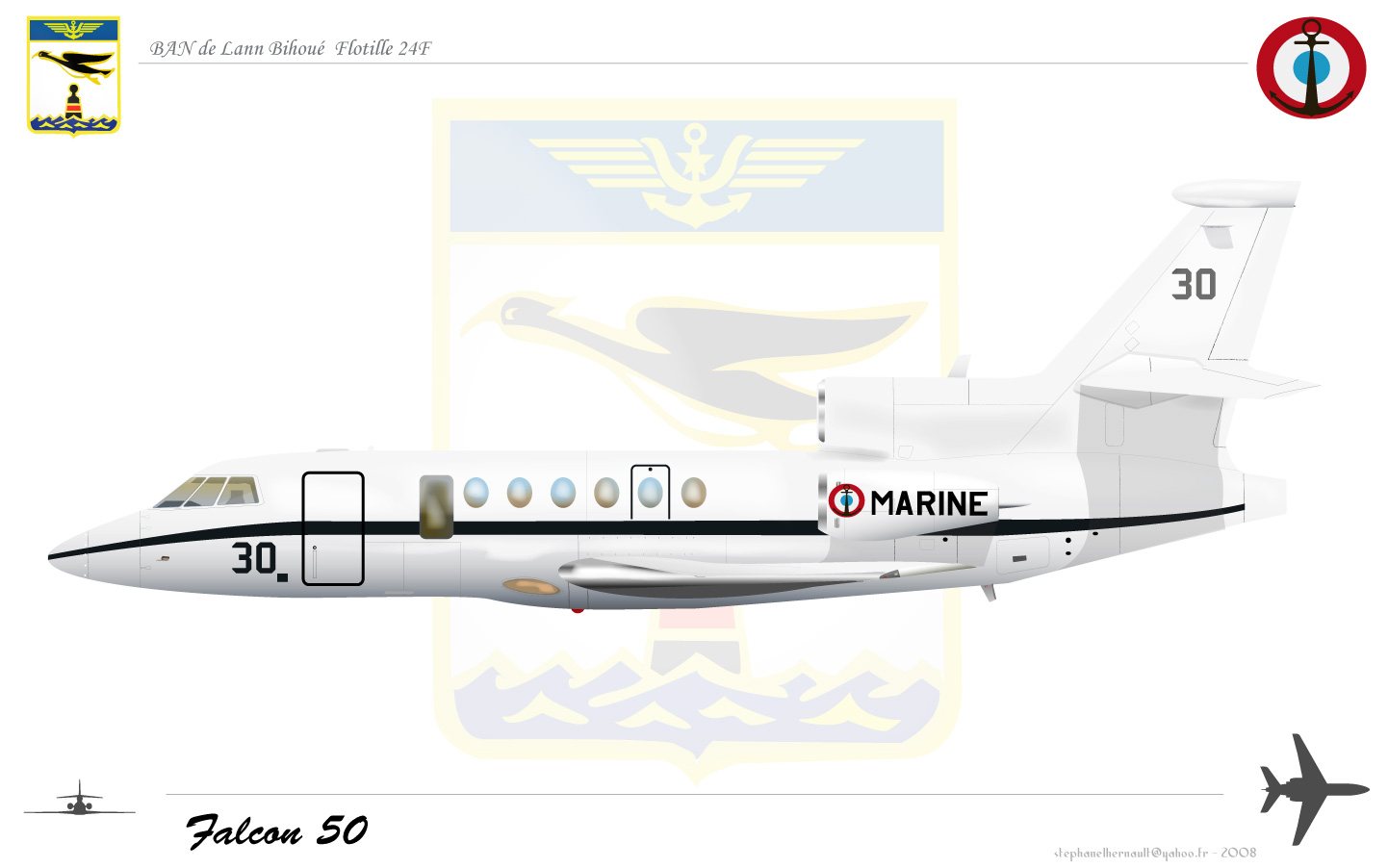 Falcon 50 Flotille 24F French Marine